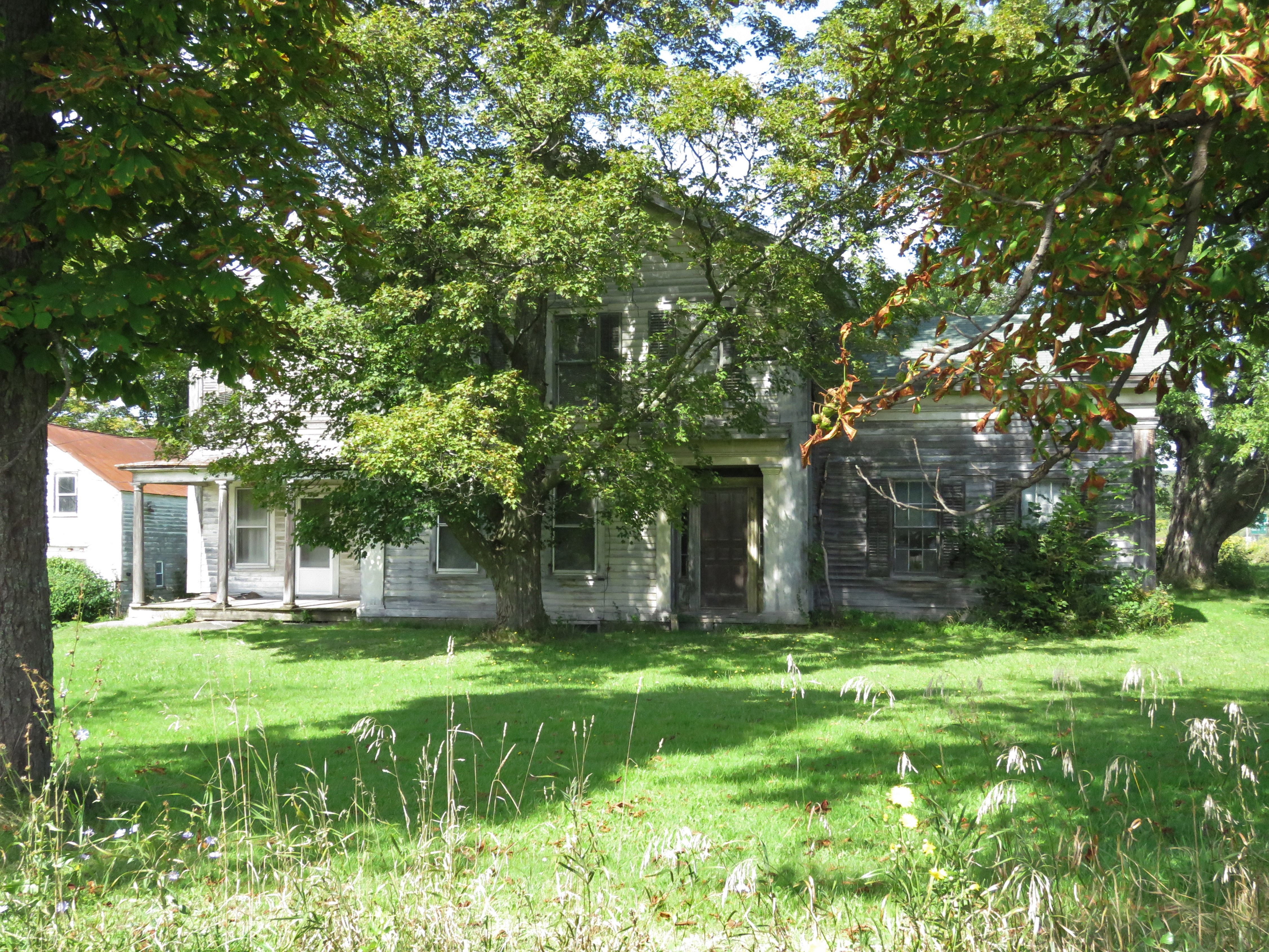 Ferguson Farm Complex